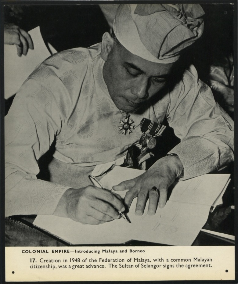 Description: Creation in 1948 of the Federation of Malaya, with a common Malayan citizenship, was a great advance. The Sultan of Selangor signs the agreement. Location: Selangor, Malaya, Borneo Our Catalogue Reference: Part of CO 1069/493. This image is part of the Colonial Office photographic collection held at The National Archives. Feel free to share it within the spirit of the Commons. Please use the comments section below the pictures to share any information you have about the people, places or events shown. We have attempted to provide place information for the images automatically but our software may not have found the correct location. For high quality reproductions of any item from our collection please contact our image library